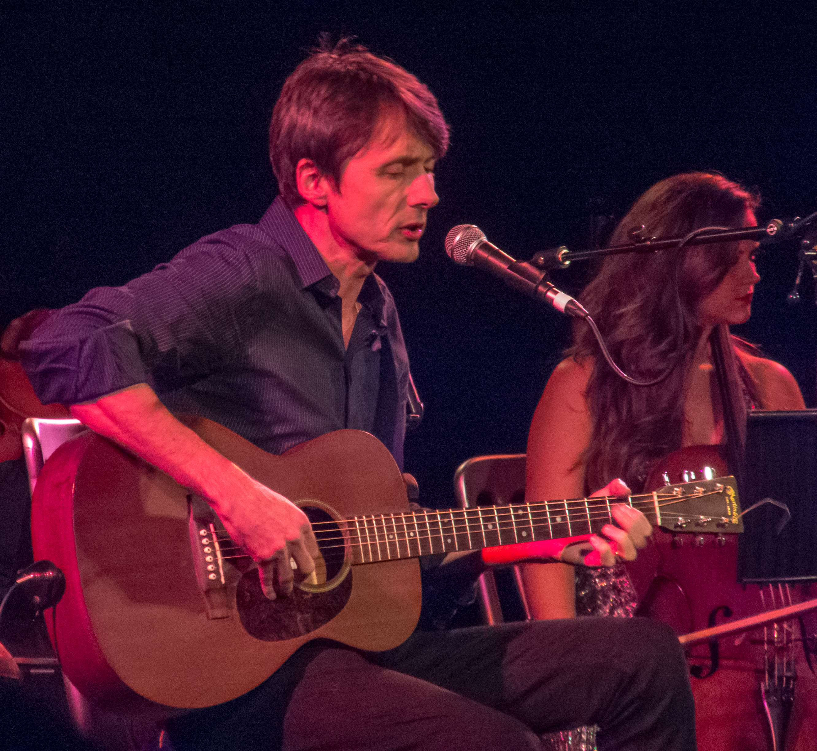 Brett Anderson @ Union Chapel